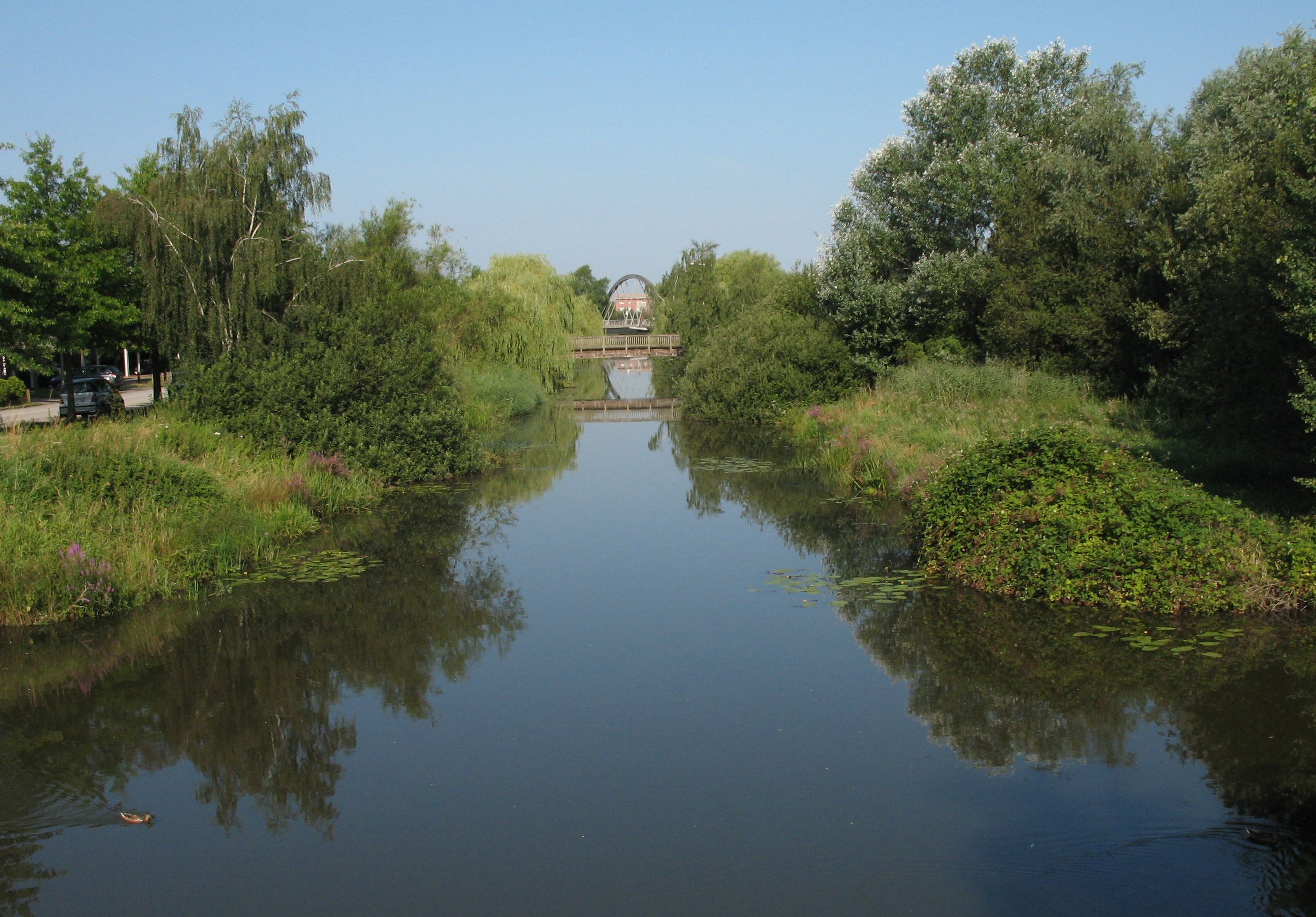 Town canal in Hamburg-Allermöhe, Germany